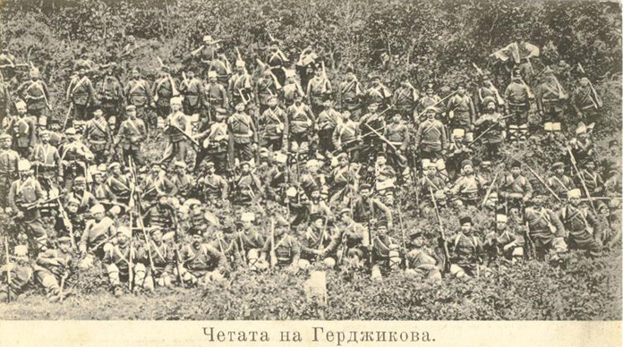 Cheta of Mihail Gerdzhikov from IMARO, during the Preobrazhenie uprising in Thrace